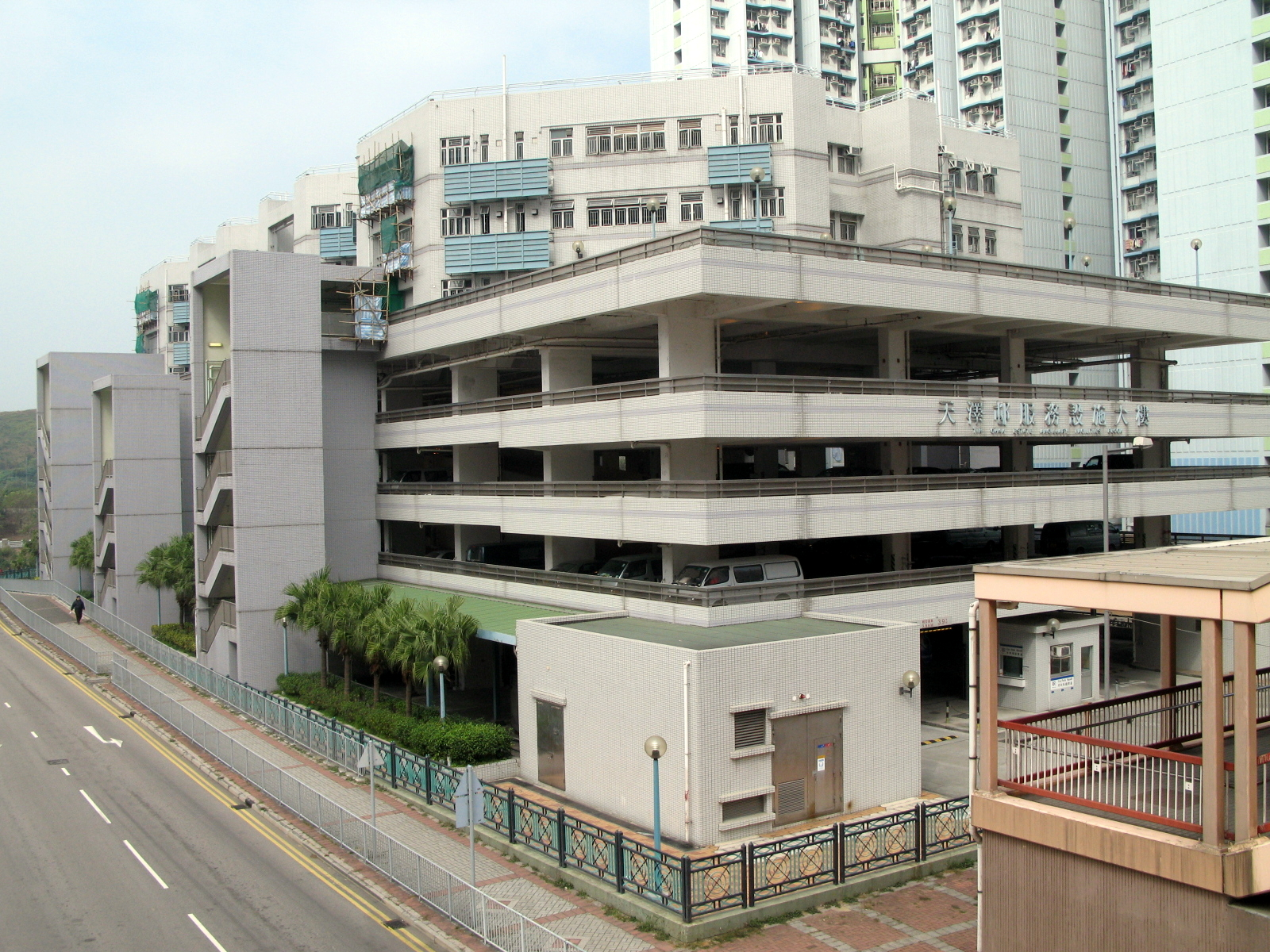 HK Tin Chak Service Building in Tin Shui Wai North